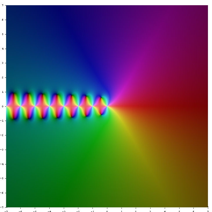 function PolyGamma[1,z] in the complex plane